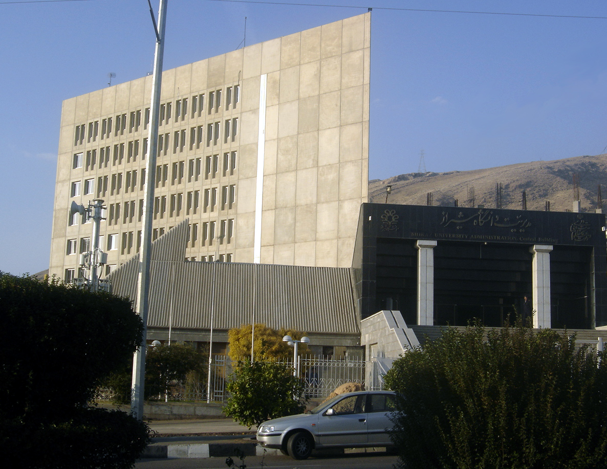 Shiraz University Administration bldg